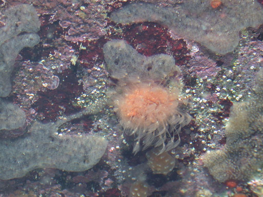 Hydractinia epiconcha(Cnidaria) Japanese name;Kaiumihidora/カイウミヒドラ Date;2007,05,20,Susami town,Wakayama Pref. Japan Author;Keisotyo